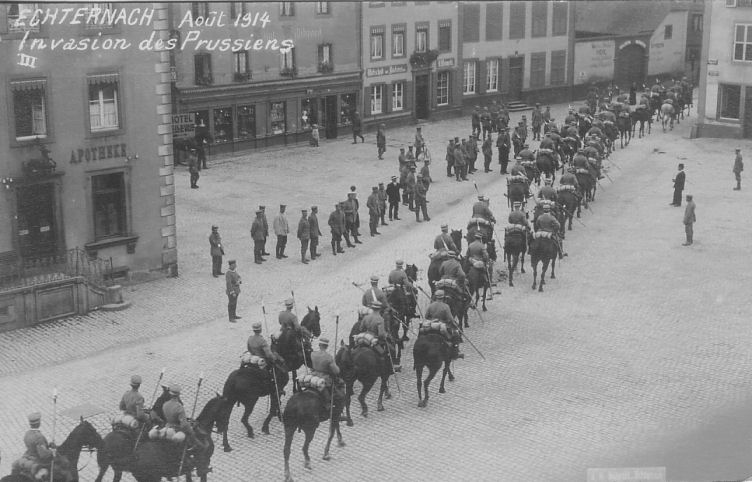 Echternach, Luxembourg: "Invasion des Prussiens III, Août 1914", Photo by J.M. Bellwald.